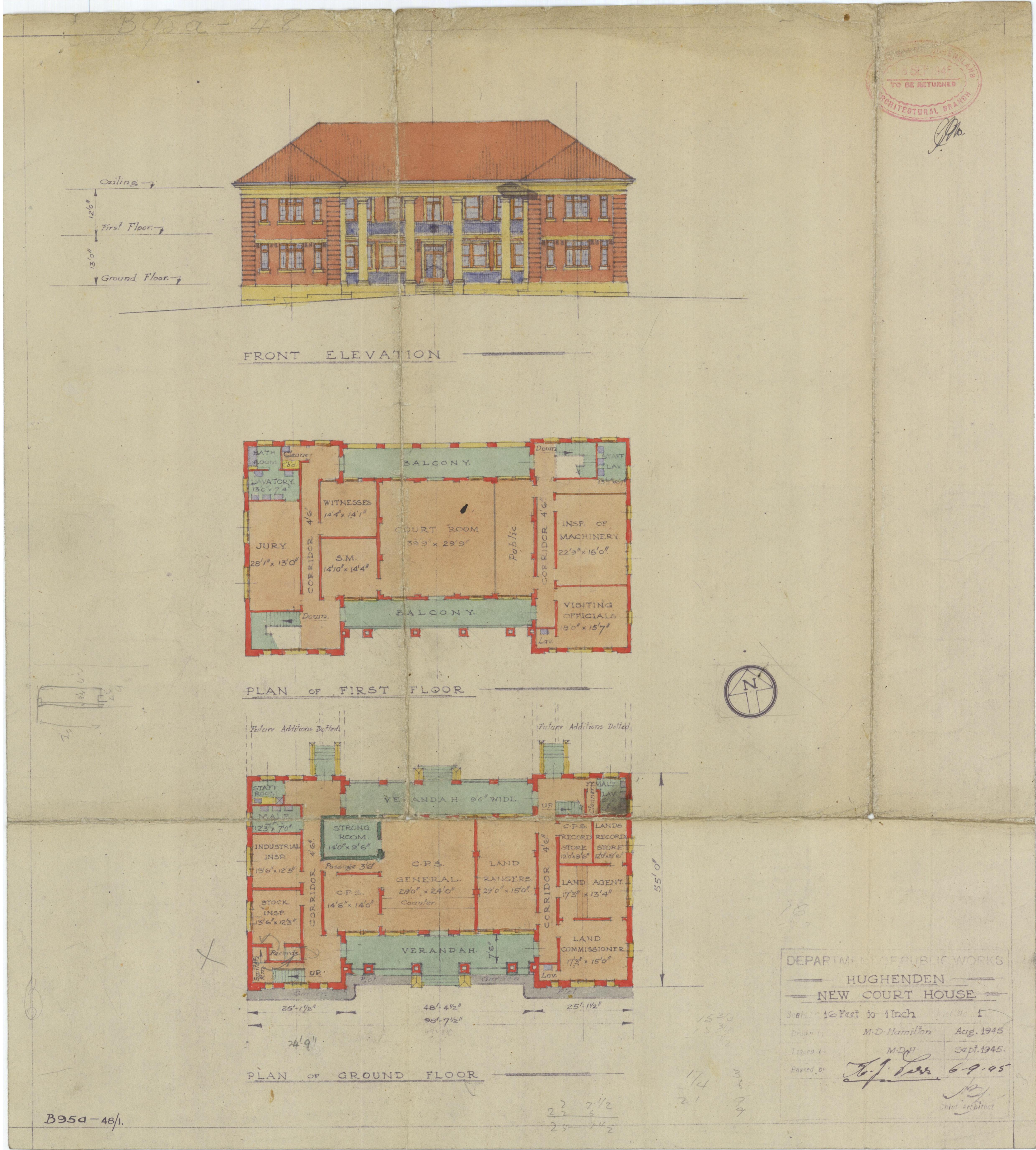 Plan of Court House, Hughenden, August 1945. However, the Court House was not built to these plans because it was discovered in 1947 that the foundations would not support a 2-storey building and new plans for a single-story building were drawn up.